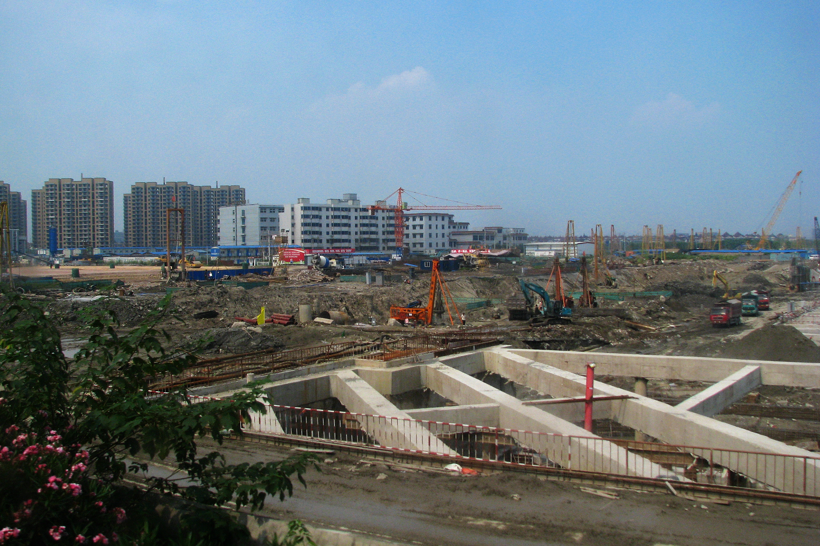 Hangzhou East Railway Station in construction，August 2010